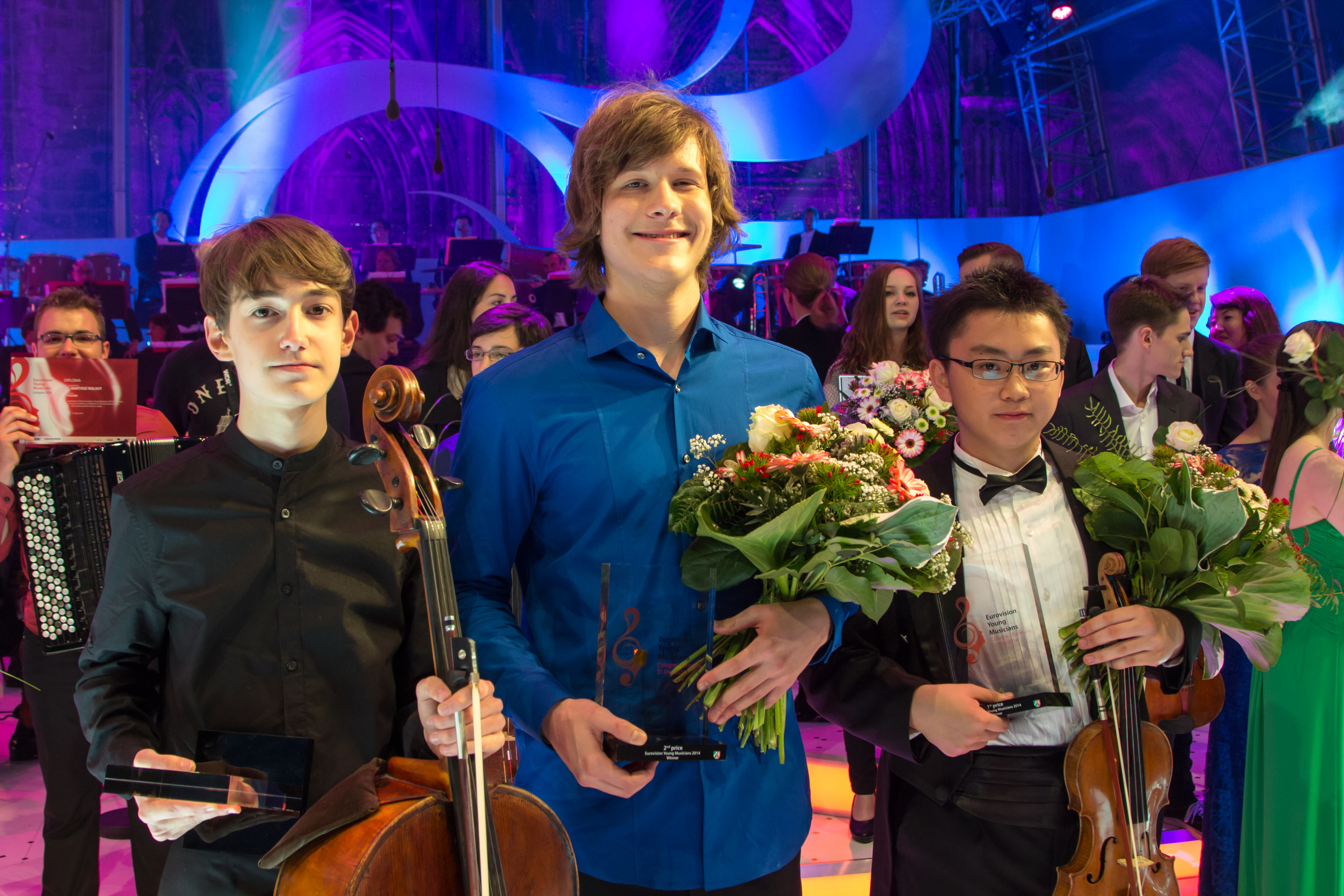 Winners of Eurovision Young Musicians 2014: Albin Uusijärvi, Urban Stanič, Ziyu He